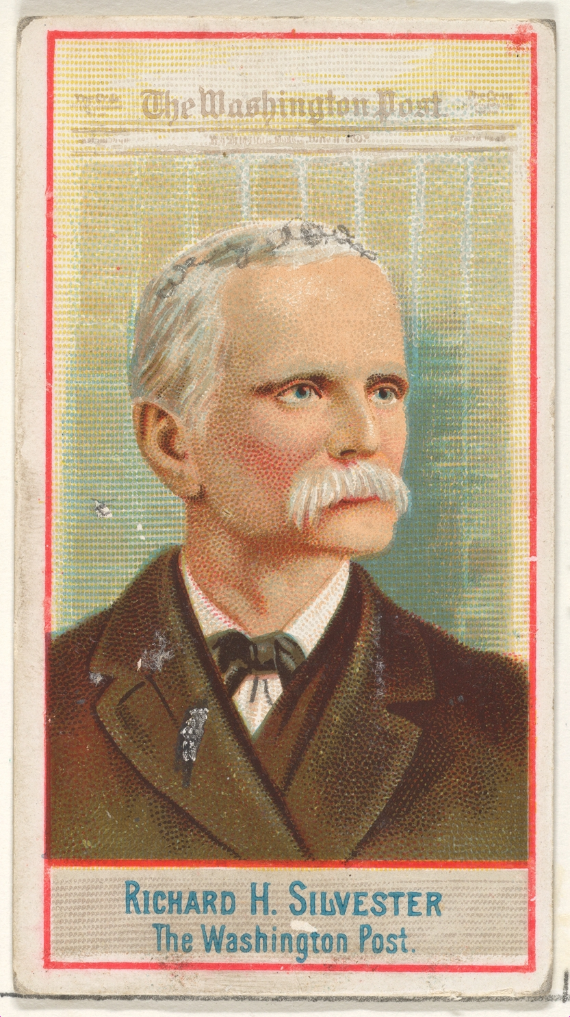 Print; Prints/Ephemera